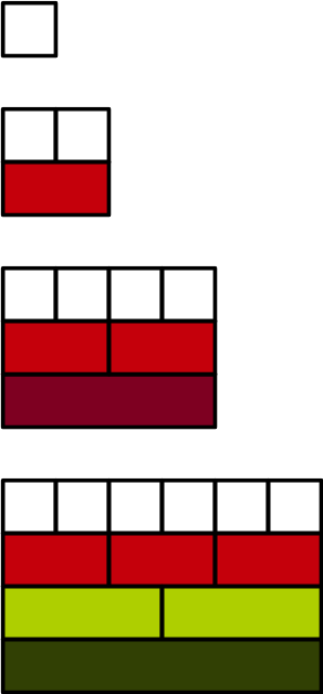 Showing, through Cuisenaire rods, that 6 is a highly composite number.